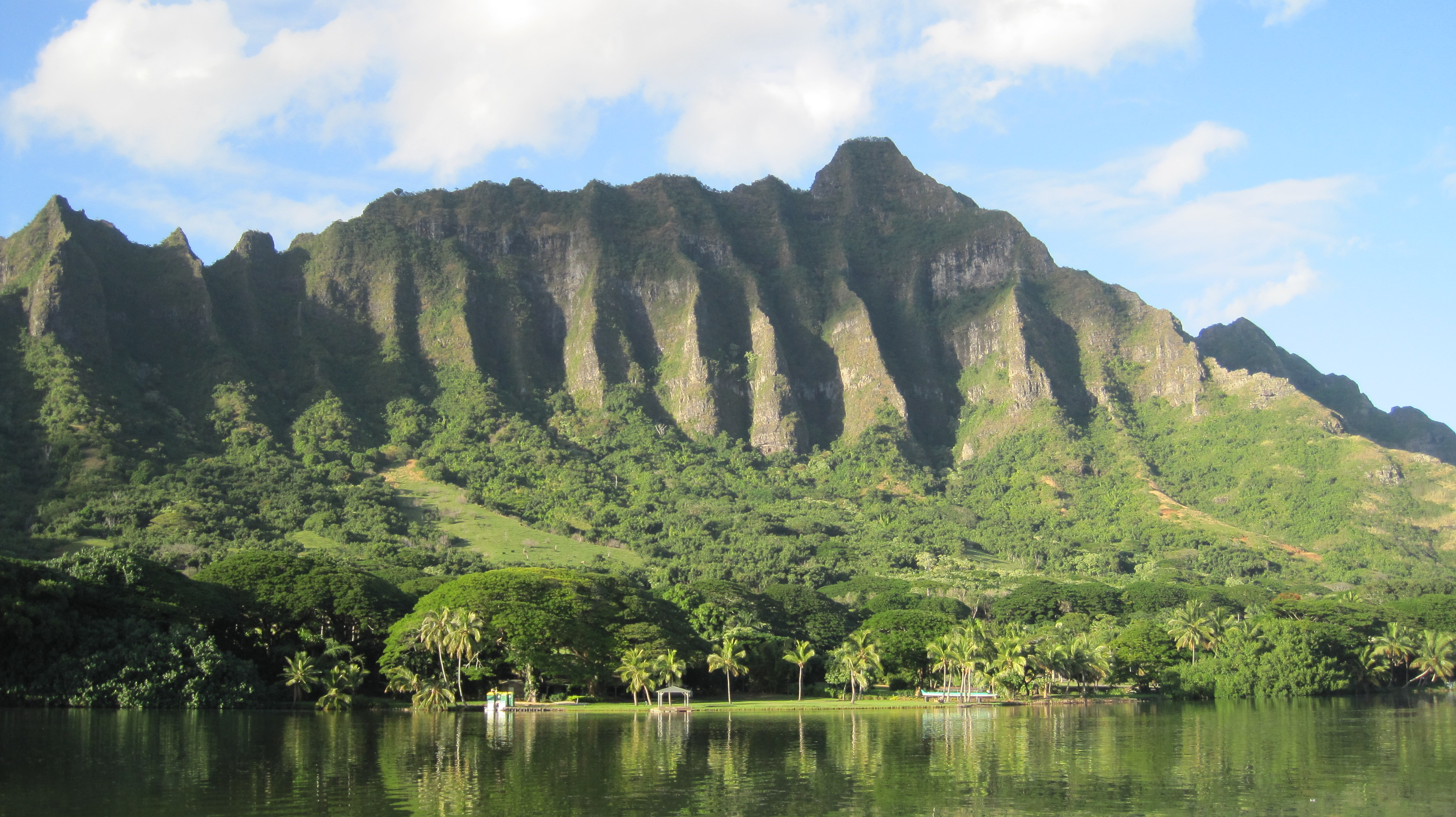 Moliʻi Fishpond view of Kualoa Ridge on Windward Oahu, on National Register of Historic Places